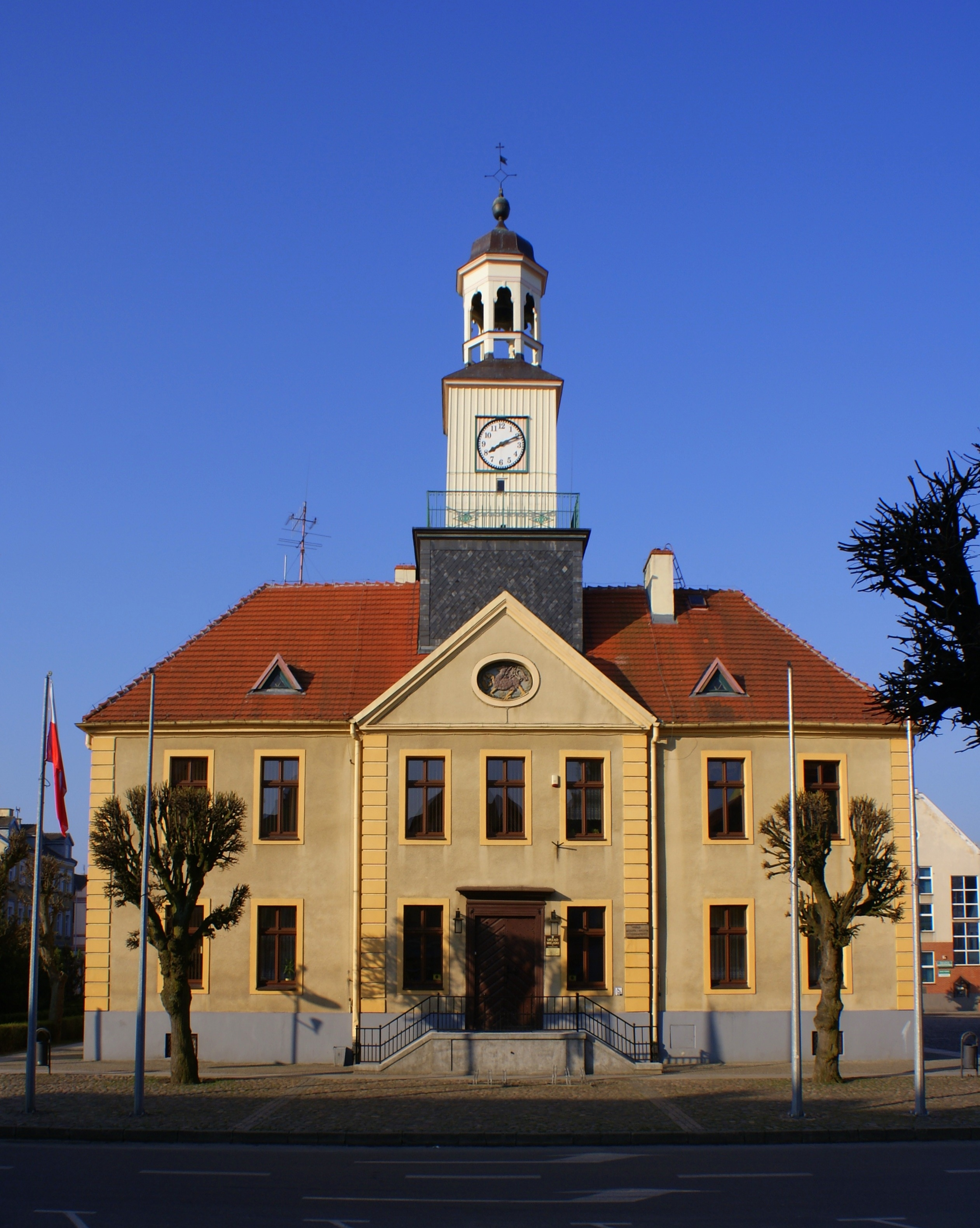 Town Hall in Trzebiatów